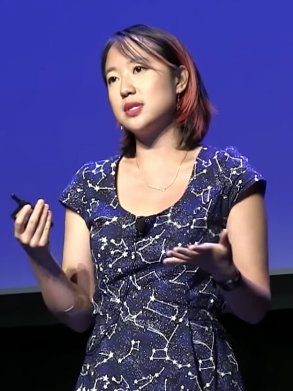 A journalist trained as a lawyer, Sarah Jeong writes about technology, policy, and law as contributing editor at Motherboard. Last year, she published The Internet Is Garbage, a deep dive into online harassment, the failed attempts to remove it from online platforms, and the balance between free speech and thoughtful community management. Recorded in September 2016 at XOXO, an experimental festival celebrating independently produced art and technology in Portland, Oregon. For more, visit (Description above transcribed faithfully from source YouTube description, found here. Screenshot taken at 16:39.)